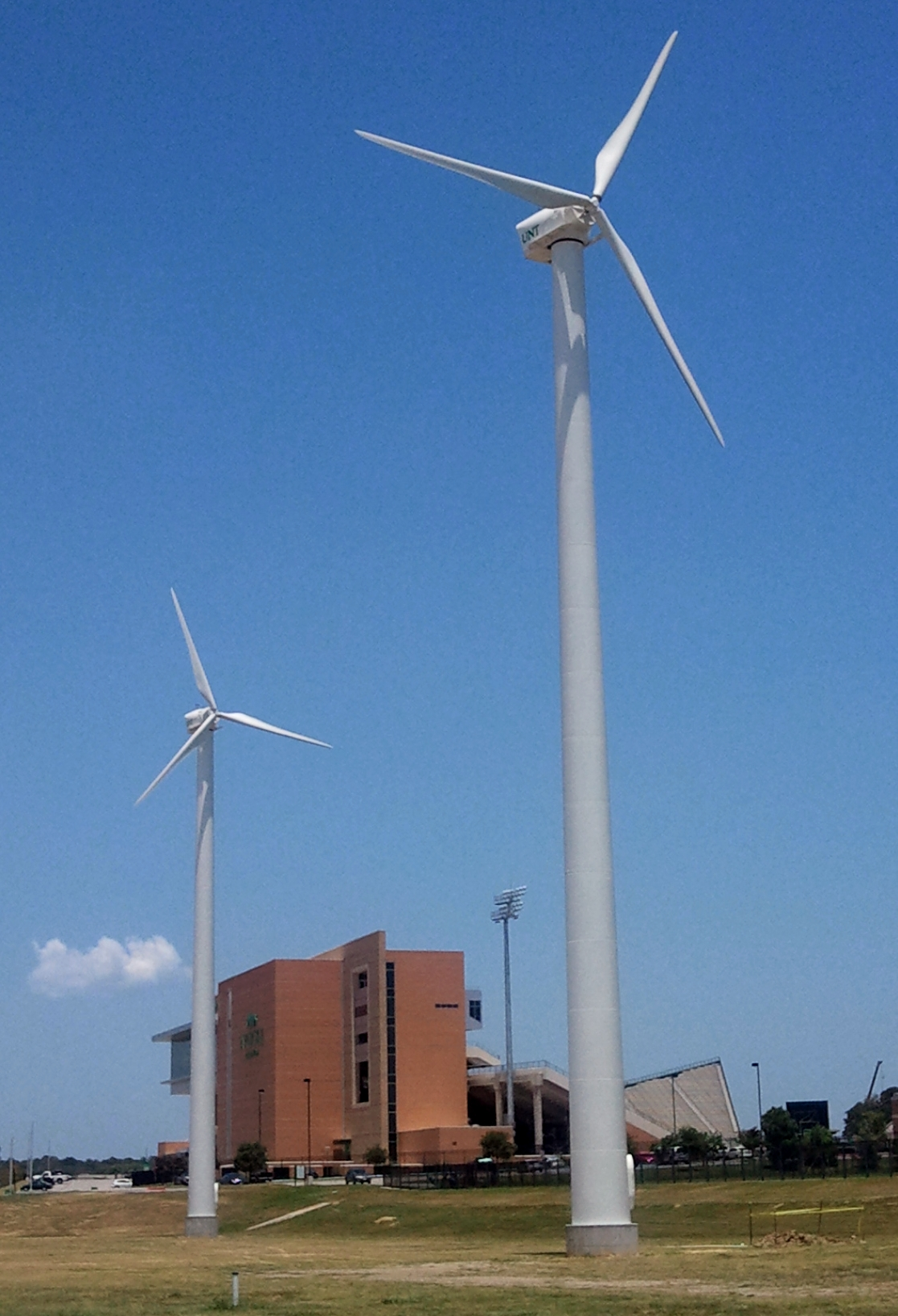 Wind Turbines on the campus of the University of North Texas in Denton, adjacent to Apogee Stadium.